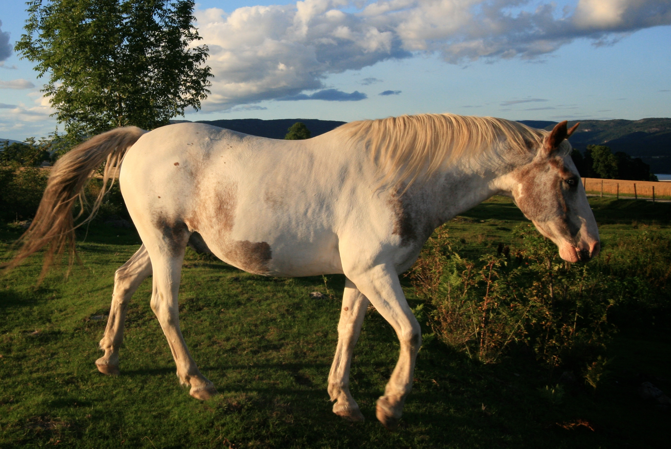 An horse carrying both the leopard complex genetics and the tobiano pattern over a chestnut base coat. Leopard genetics clear due to presence of white sclera around eye, spotting by hips, mottled skin on muzzle, and hoof striping. Possible sabino genetics present as evidenced by white on chin and lacy edges to some white markings on body. Horse may be varnish roan variant of leopard, as evidenced by roaning and dark hairs on ears and bony areas of fact, or the horse may simply be going gray. It is also possible the horse is both varnish roan and going gray. Absent additional information provided by owner of horse, the animal is clearly "a horse of a different color."